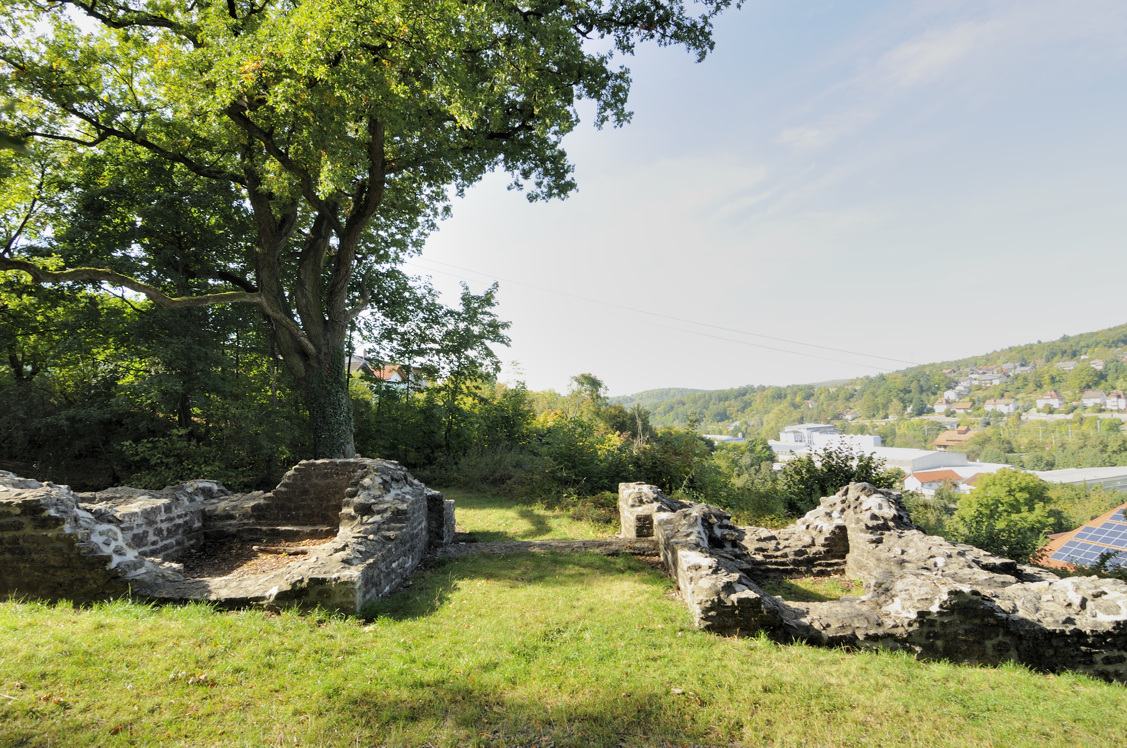 Castellum Osterburken.